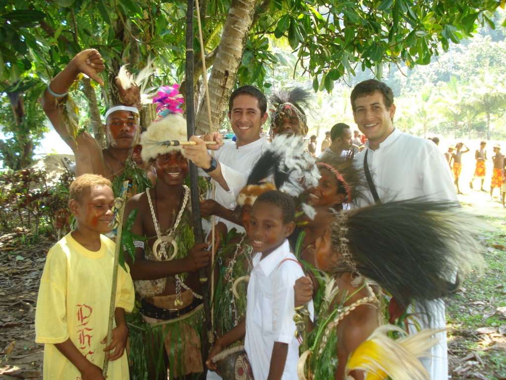 This shows Catholic Missionaries in Papua New Guinea